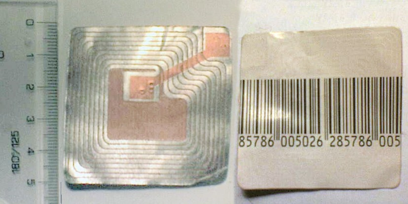 RFID chip on a stick with bar code on the opposite site